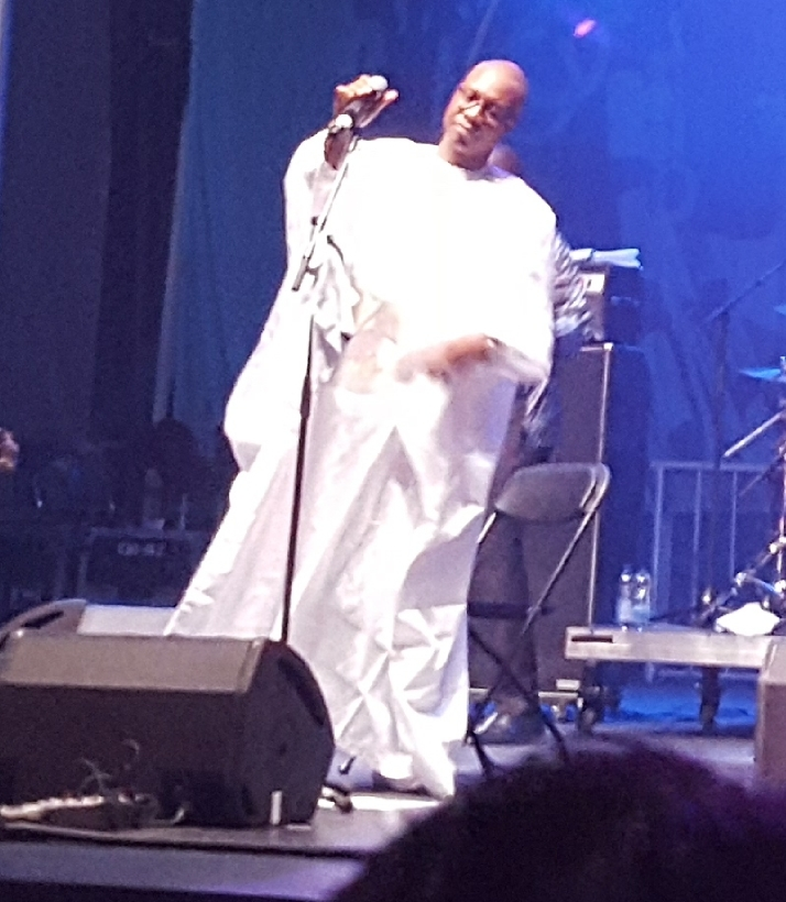 Sékouba Bambino within the festival nuits d'Afrique 2018 photographed in Montréal, Québec, Canada.